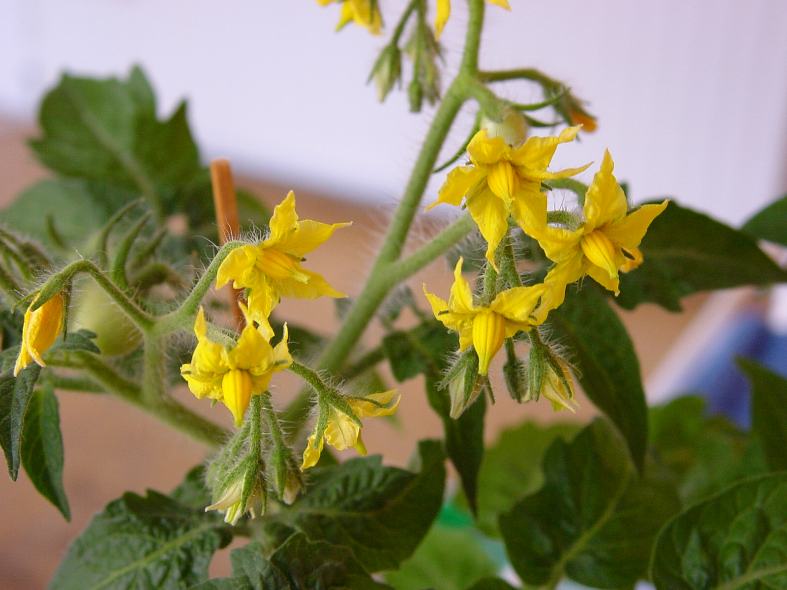 Tomato flowers (Solanum lycopersicum).